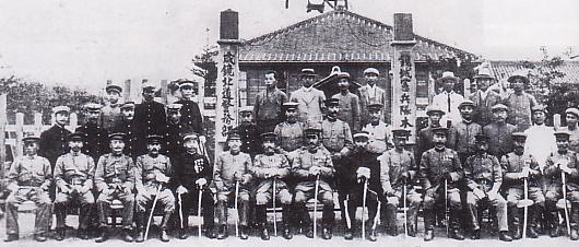 Gendarmes in Korea under Japanese rule